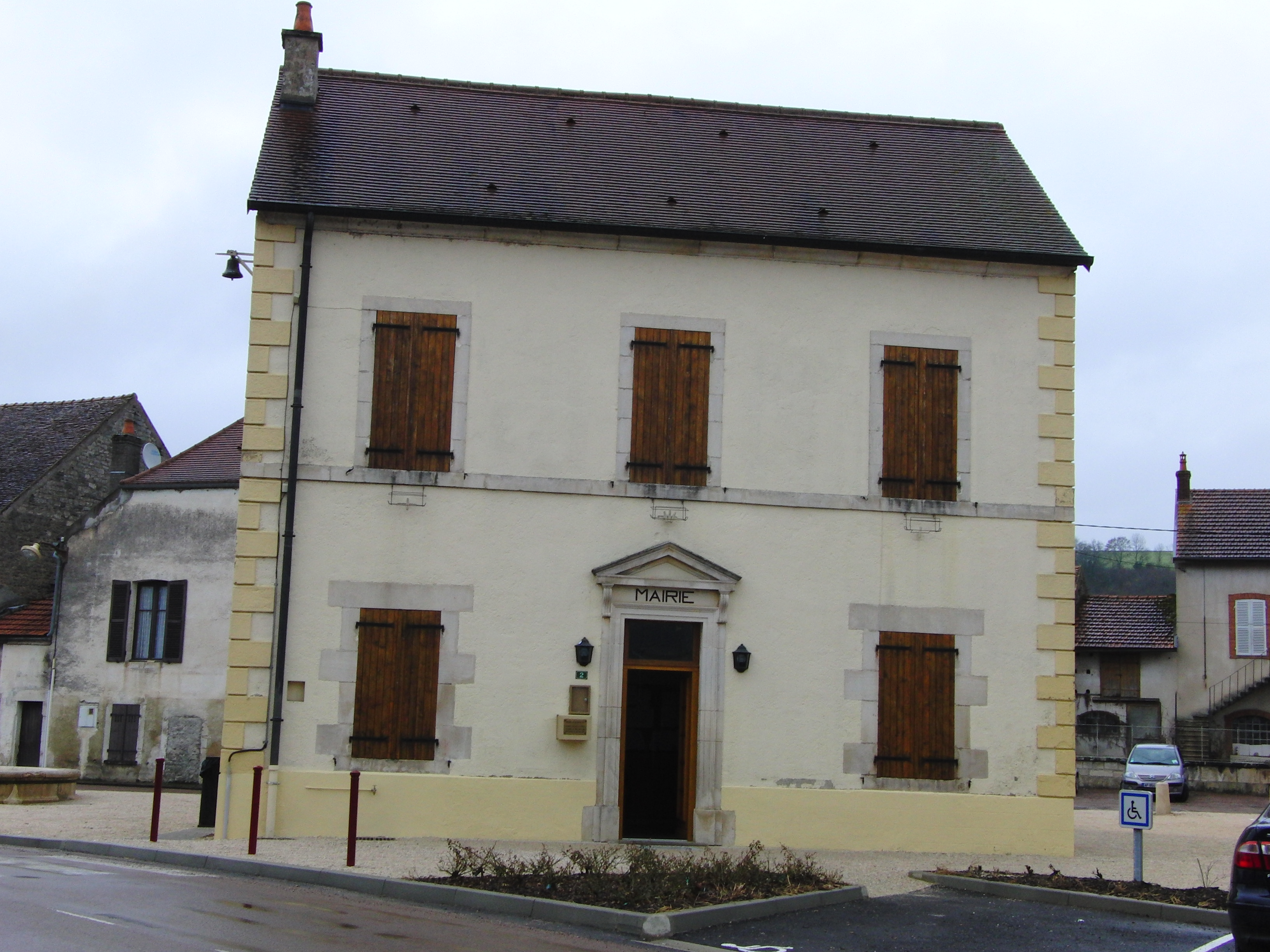 Marmagne's city hall, Côte d'Or, France